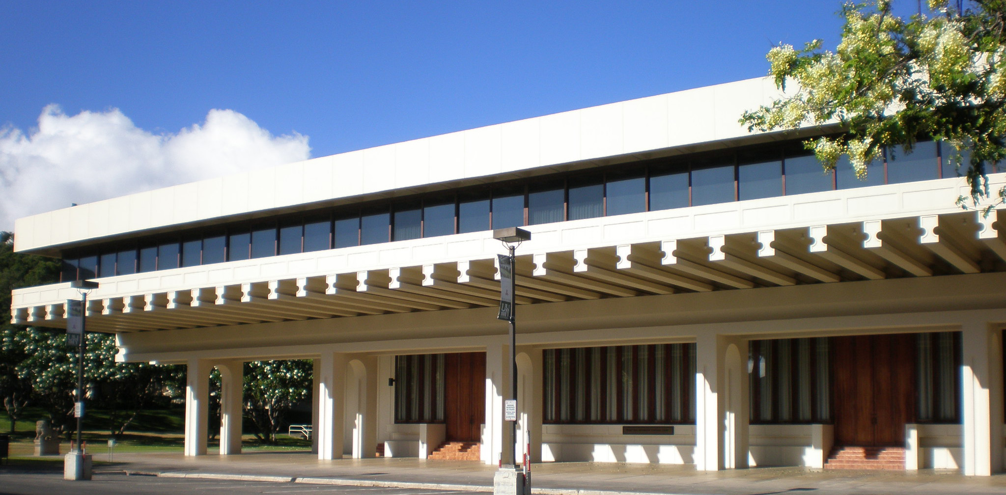 Hawaii Imin International Conference Center at Jefferson Hall, East-West Center, built 1963, architect I.M. Pei